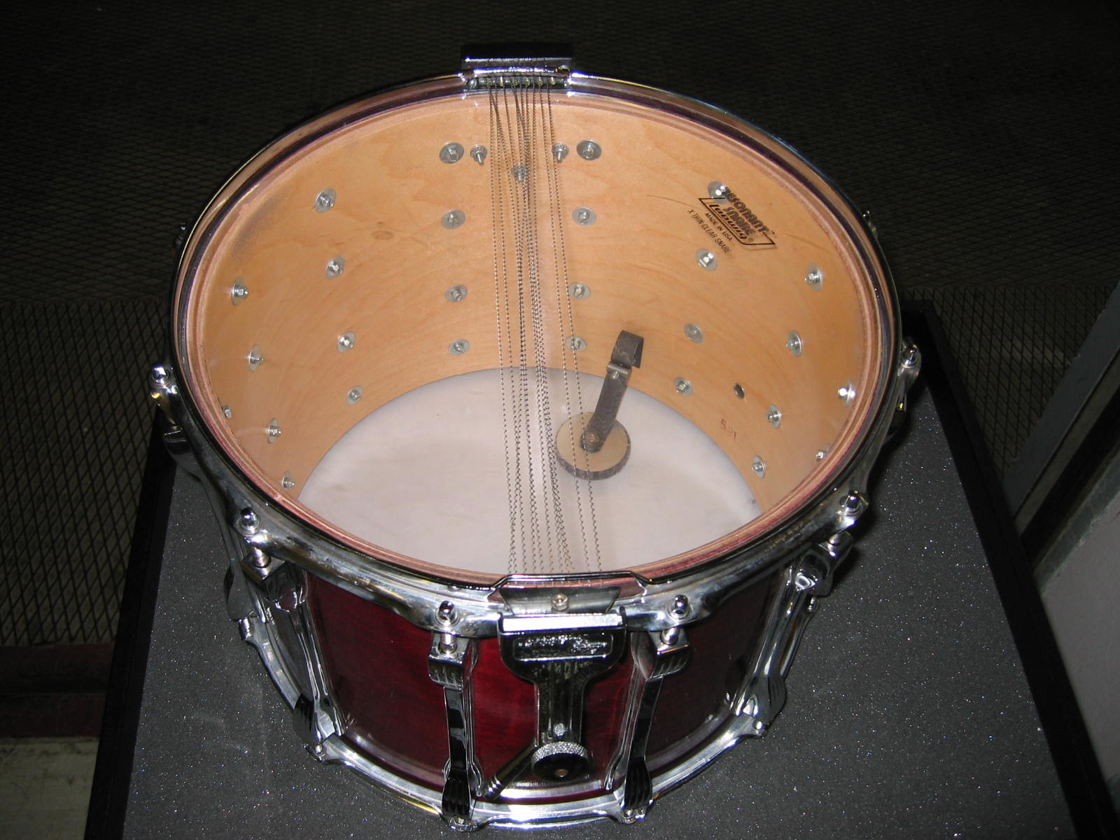 Snare drum (lower side)